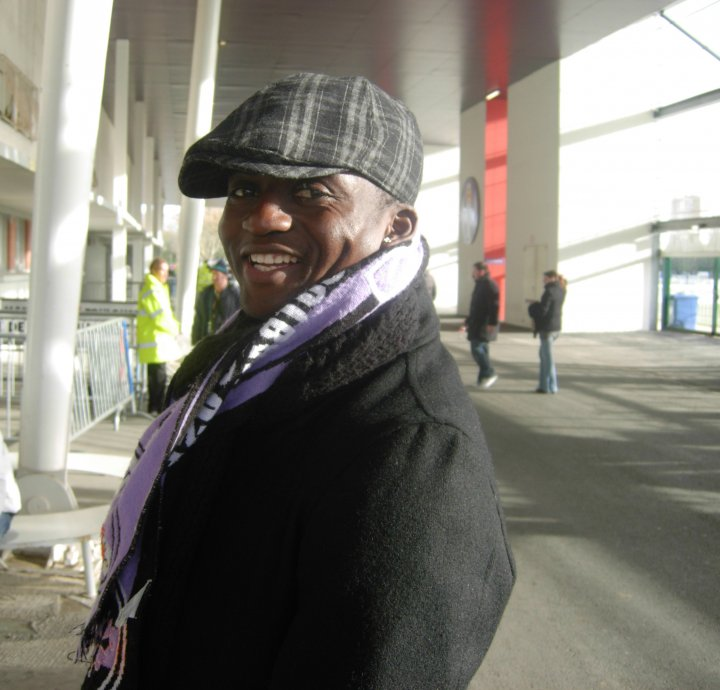 Dany 2010